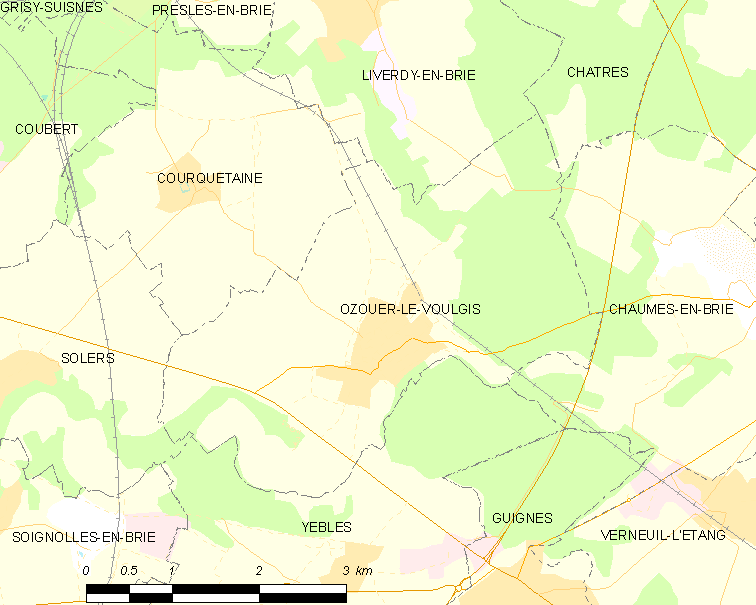 Map of French municipality Ozouer-le-Voulgis